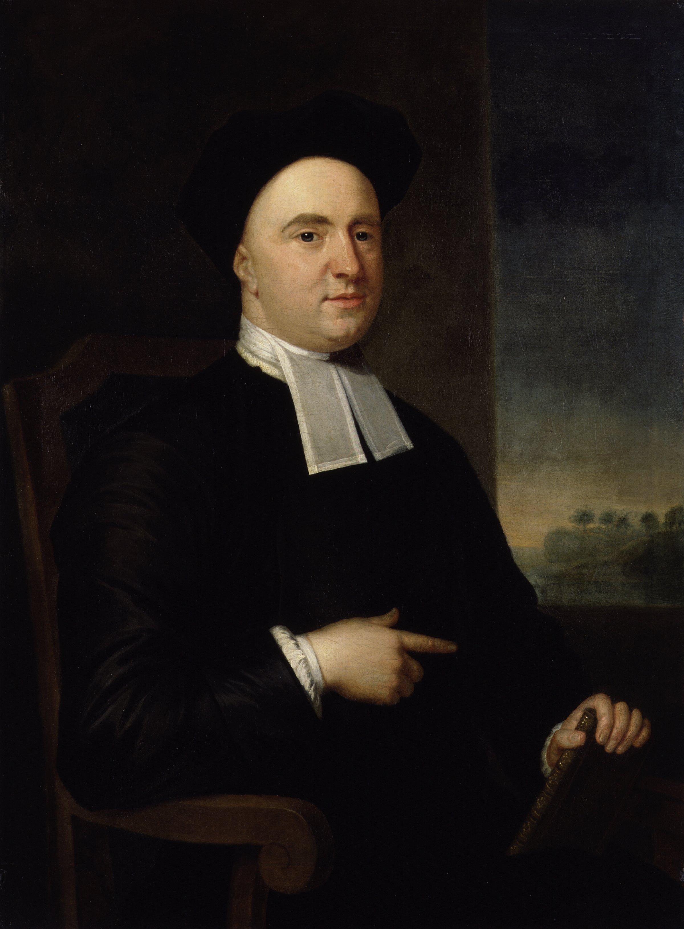 All images in this batch have been confirmed as author died before 1939 according to the official death date listed by the NPG.